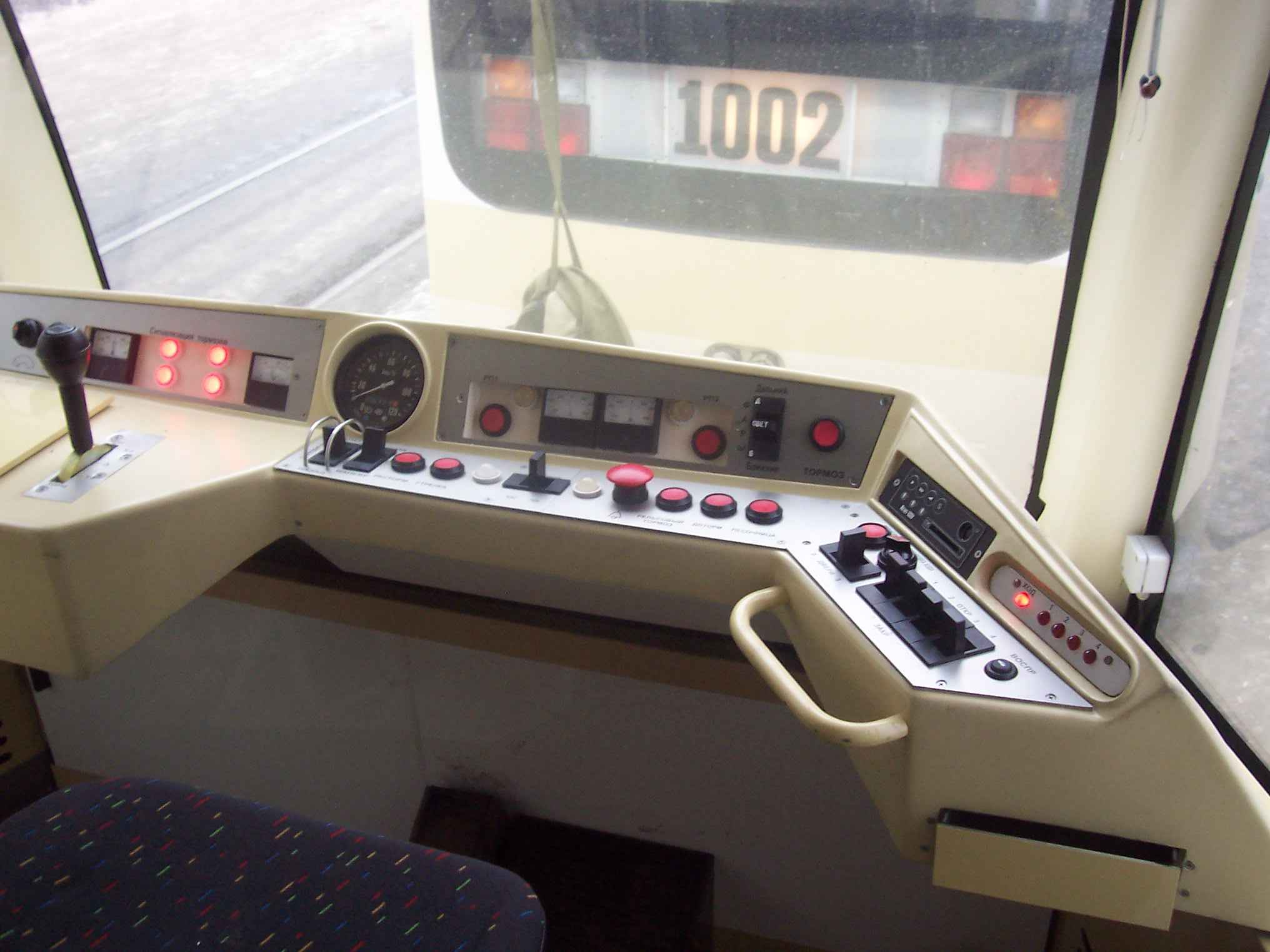 Tram car KTM-19KT in Saratov (#1004). Cockpit.